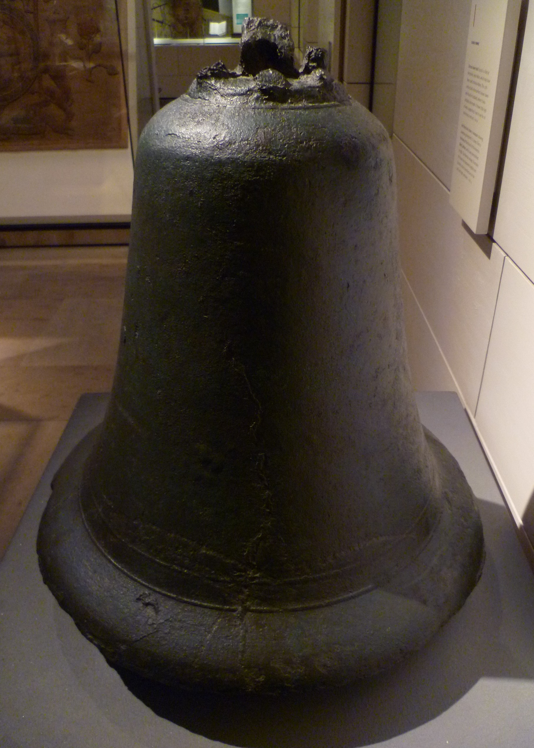 Bronze bell found at Kersmains near Kelso. The earliest known tower-bell found in Scotland, it may have belonged to Kelso Abbey.